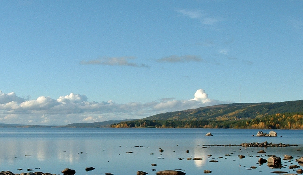 The radio and tv mast on Tåsjöberget in Tåsjö, Ångermanland. Photographed from Tåsjöedet on 4th october 2003.